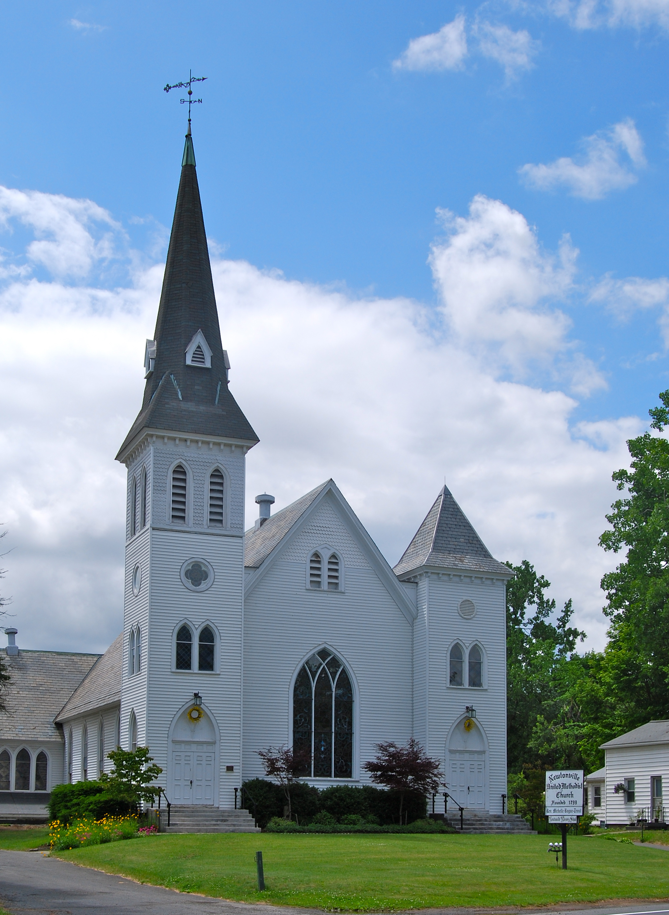 Newtonville United Methodist Church in Loundonville, New York, United States, on the National Register of Historic Places